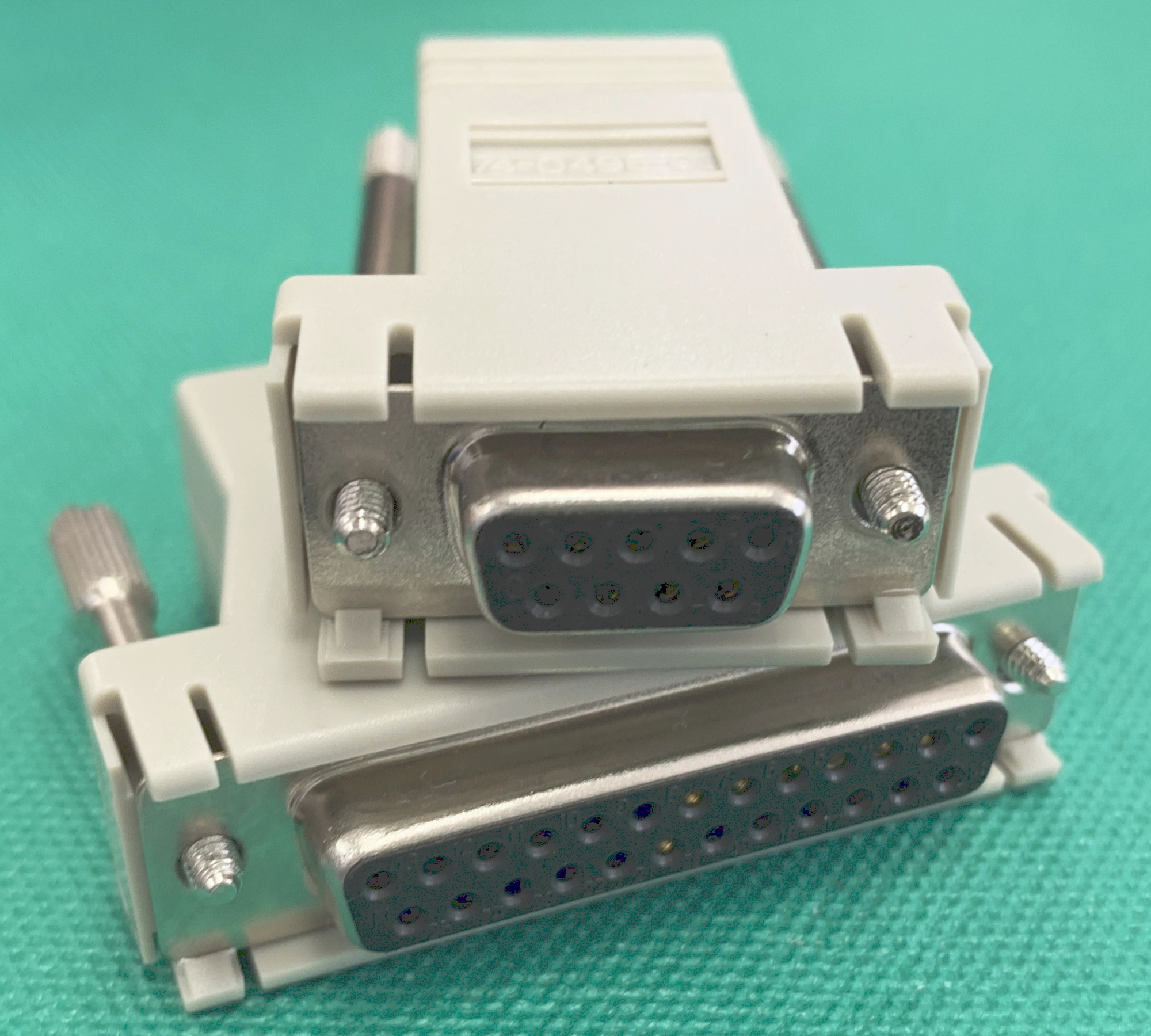 RS-232 Female Connector Dsub 9pin and 25pin（jack）